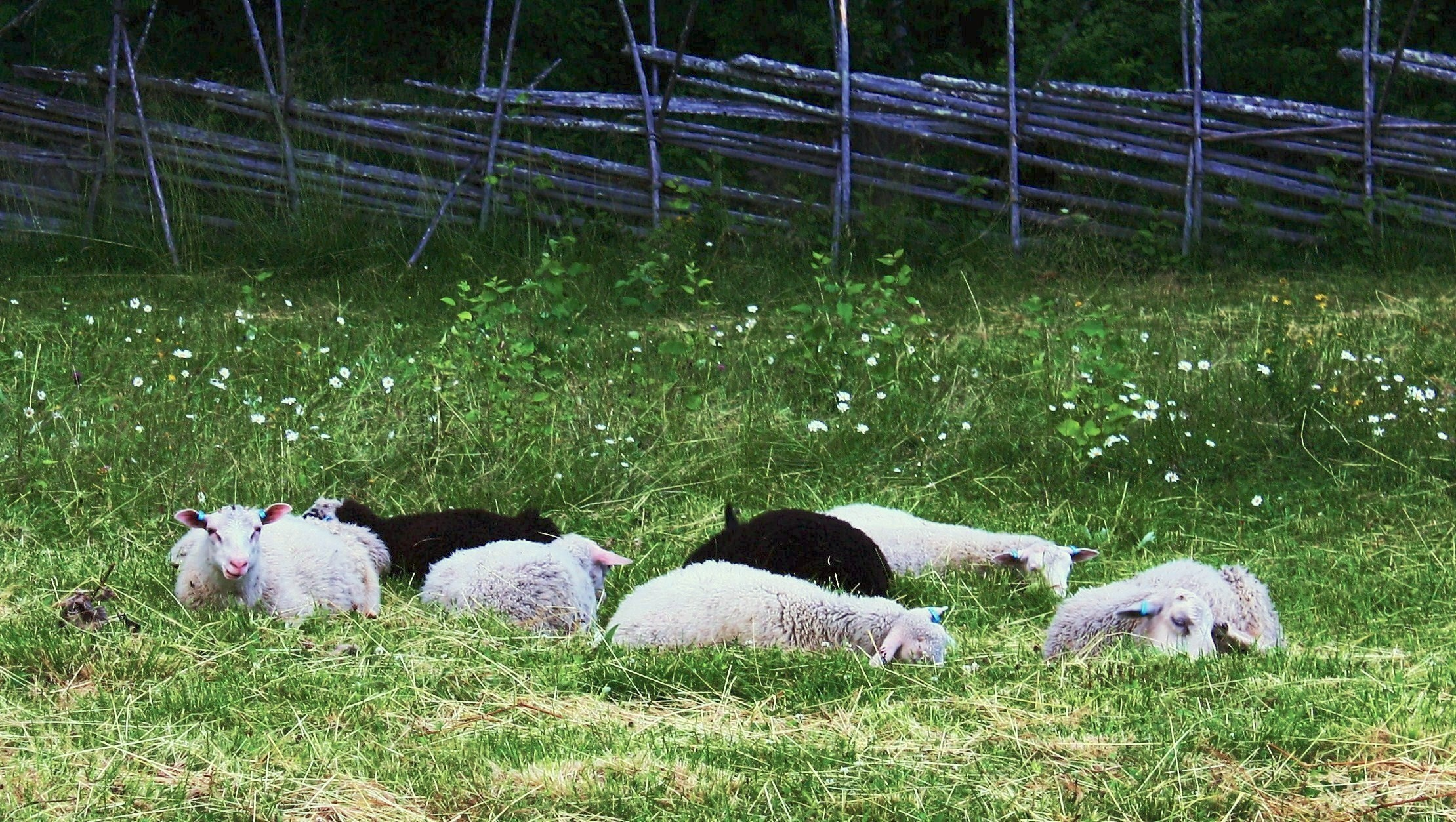 Finnsheeps at Telkkämäki Heritage Farm in Kaavi, Finland. Heritage farm is an authentic farm and farmyard in Telkkämäki Nature Reserve that dates to the beginning of the 20th century. In the summer, Telkkämäki is a lively sight with farm animals on the fields.